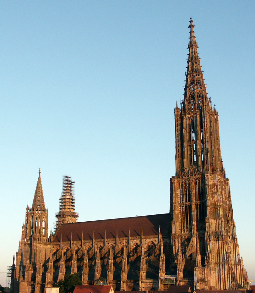 Ulm Minster - a Gothic church in Ulm, Germany